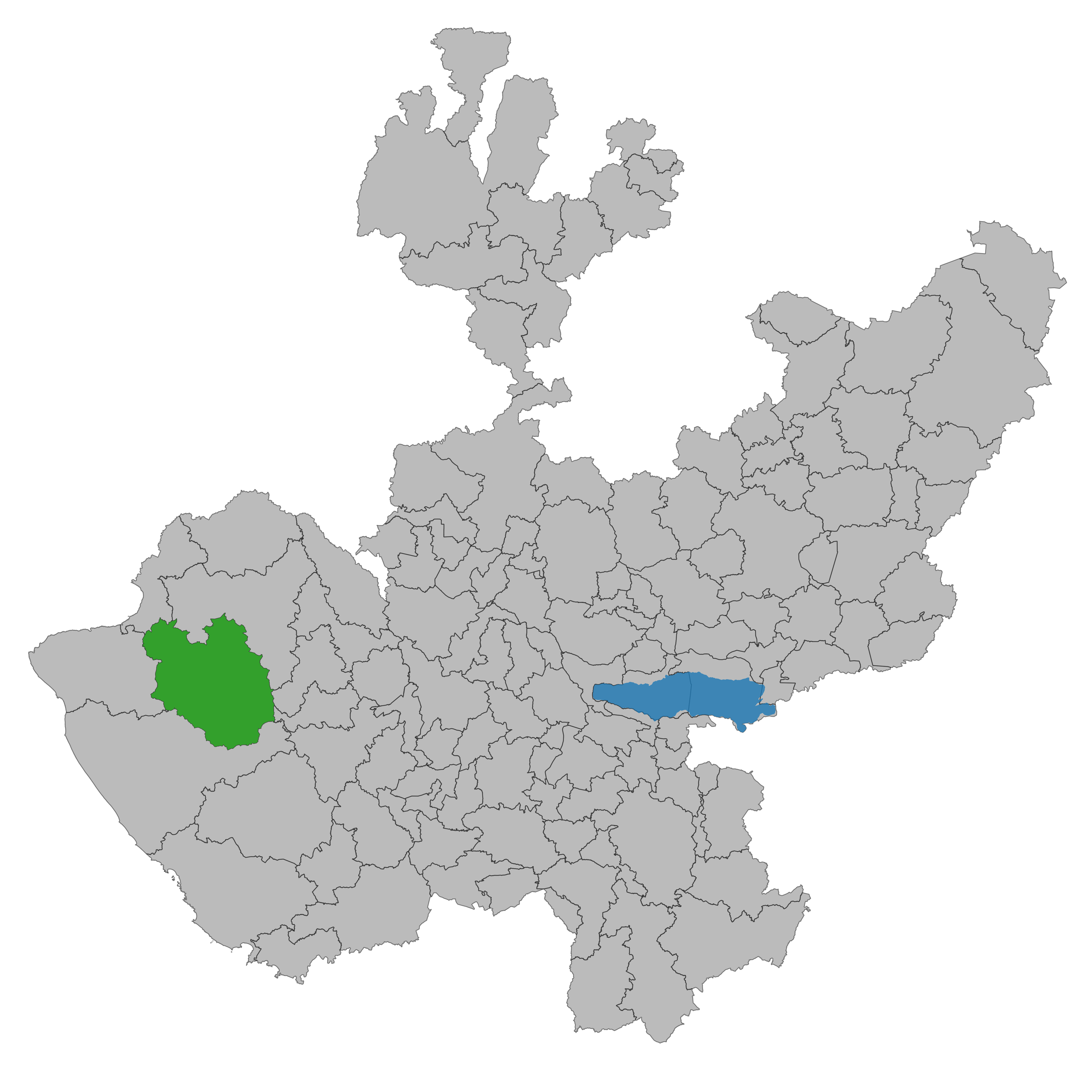 Municipality of Jalisco. Prepared with the software QGIS version 2.8.2 Wien & with information of SCINCE 2010 version 05/2013